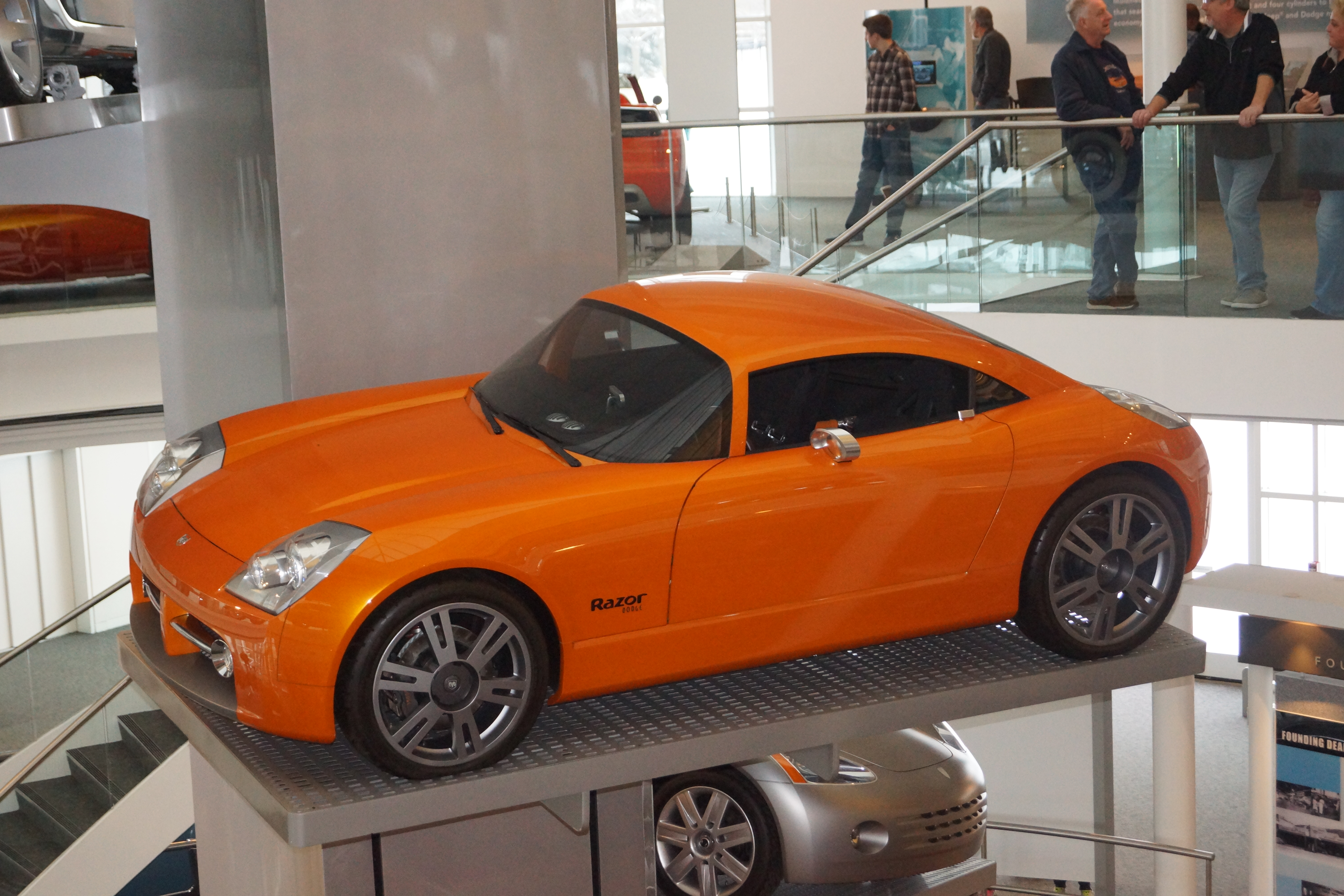 Click here for more car pictures at my Flickr site. Or here for my Car Crazy Tumblr site. Back on November 4th, Hemming's Blog posted an article about the closing of the Walter P. Chrysler Museum . I had missed a couple other opportunities with the WPC Club and others to get into the museum, after it had closed to the public. I did not want to regret missing this last chance to see all of the vehicles before being spread out to other facilities. I trekked from Western Minnesota to Eastern Michigan during Winter Storm Decima. I missed the worst parts of the storm, but still had to endure the aftermath winds, sub zero temperatures and a lake effect snow storm. The trip was difficult, but well worth it. I got to see several Chrysler Corporation concept and show cars that I had only seen pictures of before. There were several clever interactive displays demonstrating various innovations over the years. Since it was the last chance, I duplicated several shots using different camera settings to see what produced better results. I wish I had invested in a strobe light diffuser for all of those indoor pictures. I have not had much experience or success in the past with indoor car images.